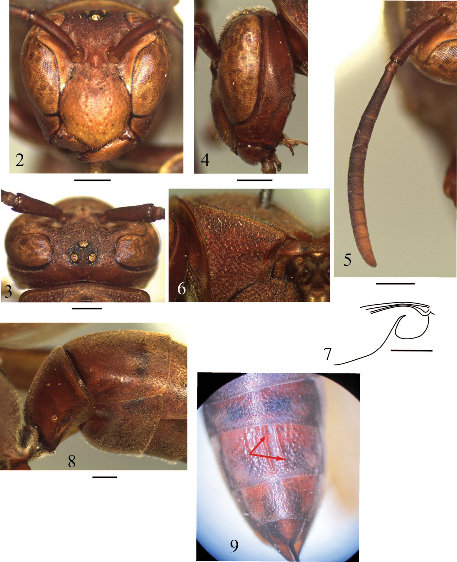 2–9. Polistes (Polistella) brunetus sp. n., female. 2–5 Head 2 Frontal view 3 Vertex in dorsal view 4 Lateral view 5 Right antenna 6 Pronotum in lateral view 7 Jugal lobe of left hind wing 8 Metasomal segments I and II, lateral view 9 Metasomal segment II–VI. Scale 1 mm.